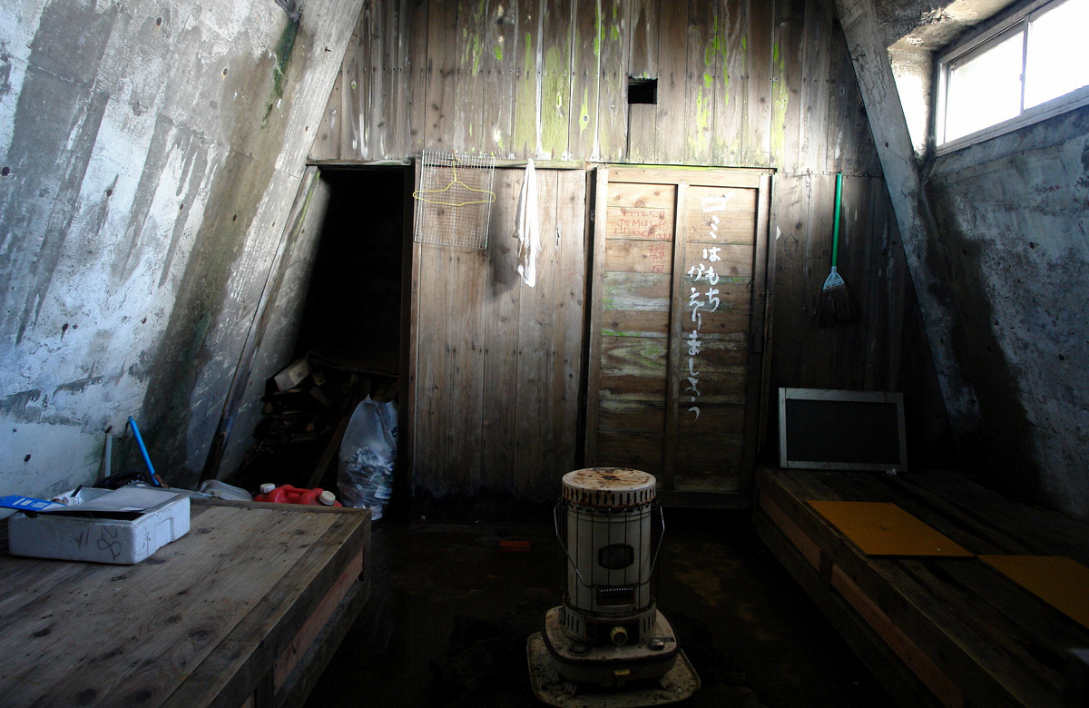 Kumanodake hinangoya ("Mount Kumano shelter hut") in the Zao mountains, Japan